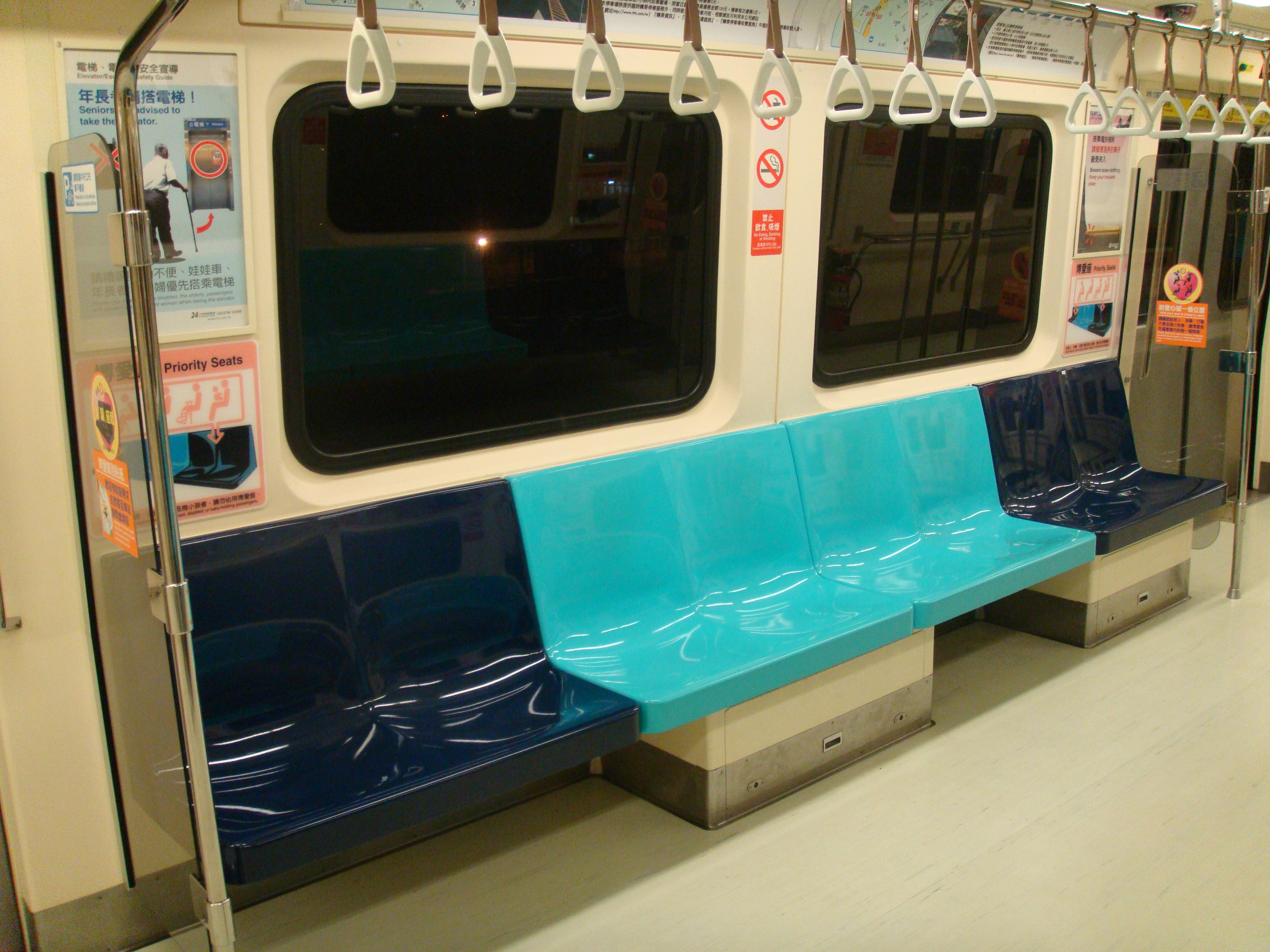 Longitudinal seating in the interior of C371 rolling stock, Taipei Metro, Taipei.